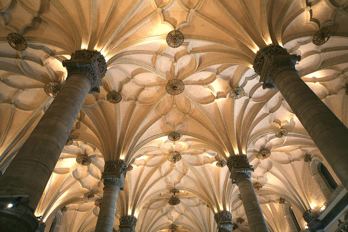 Lonja of Saragossa, 16th cent.